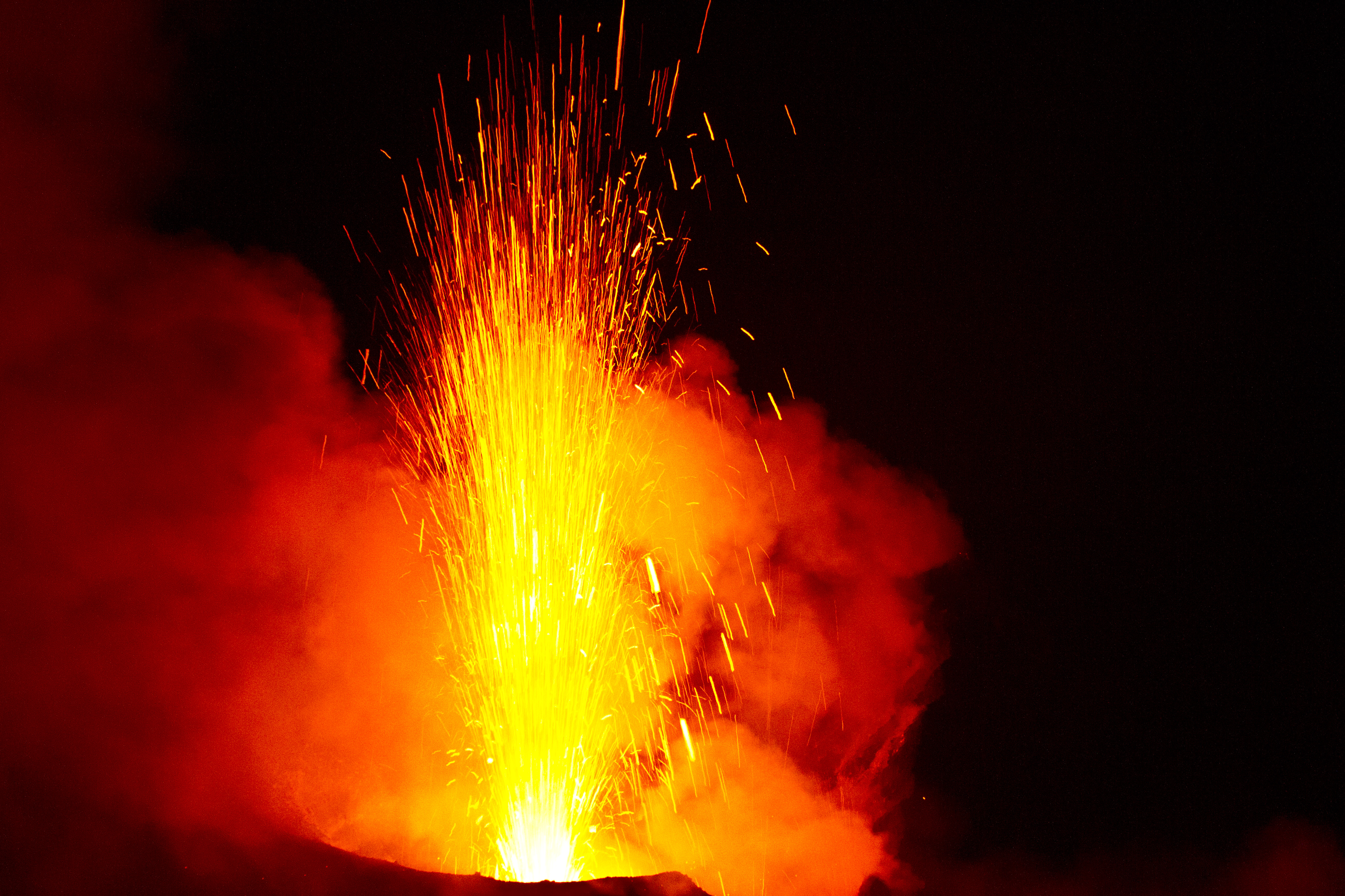 On the top